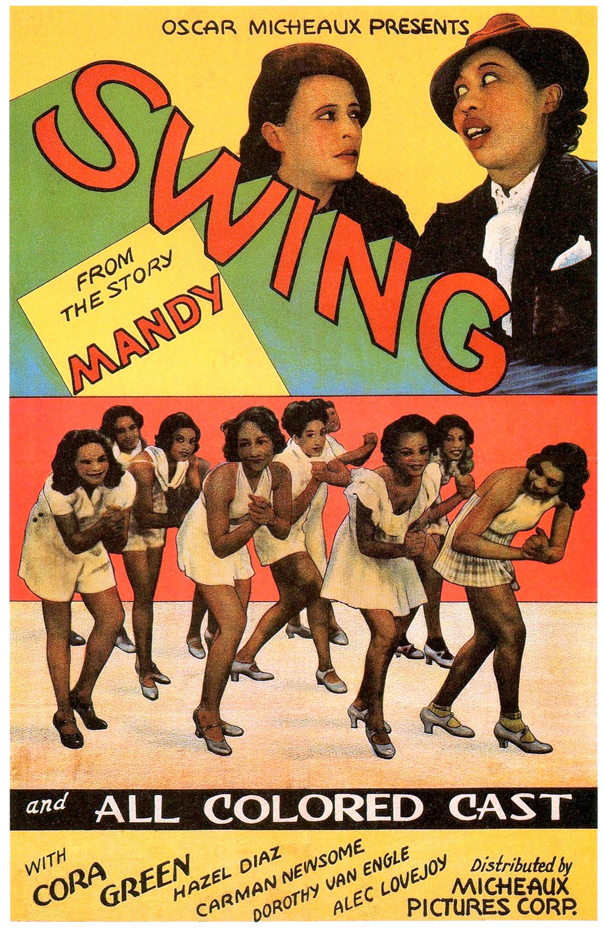 Poster for the American race film Swing (1938). A search for renewals was done for renewals in both film and artwork for the years 1965 and 1966. No results were found in either category for the film's title or Micheaux. There's no evidence ot continued copyright on the film or items related to it.